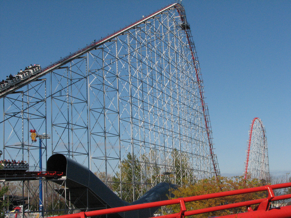 View of Magnum XL-200 at Cedar Point